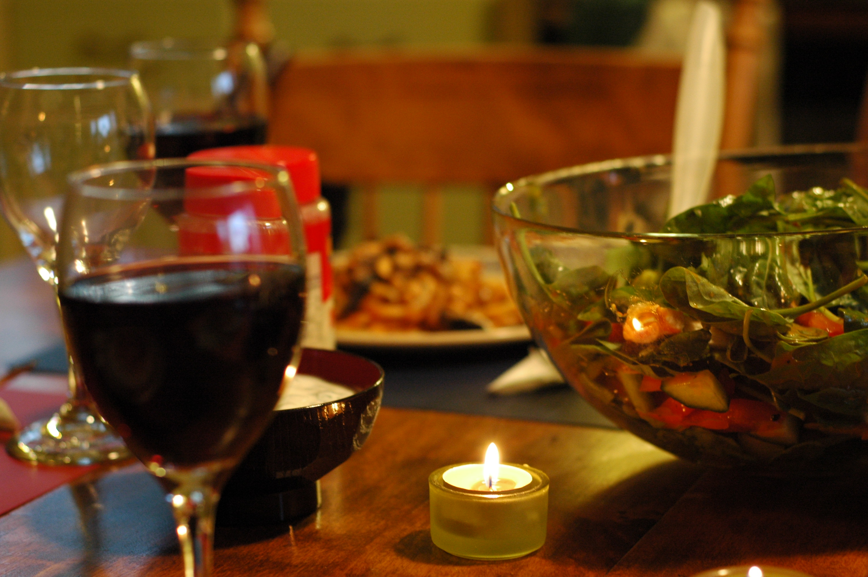 Uploaded with the Flock Browser